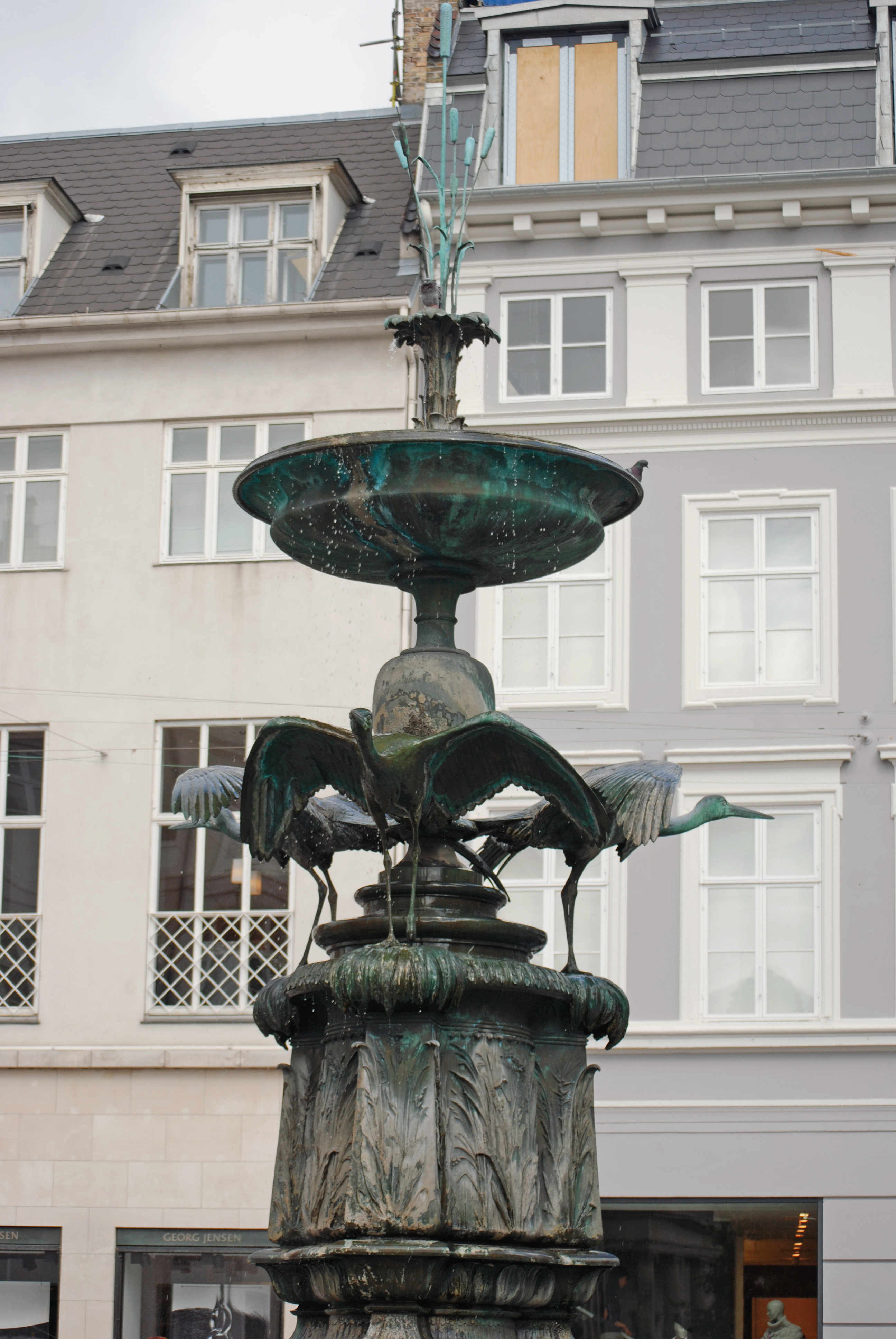 Detail of the Stork Fountain in Copenhagen, Denmark